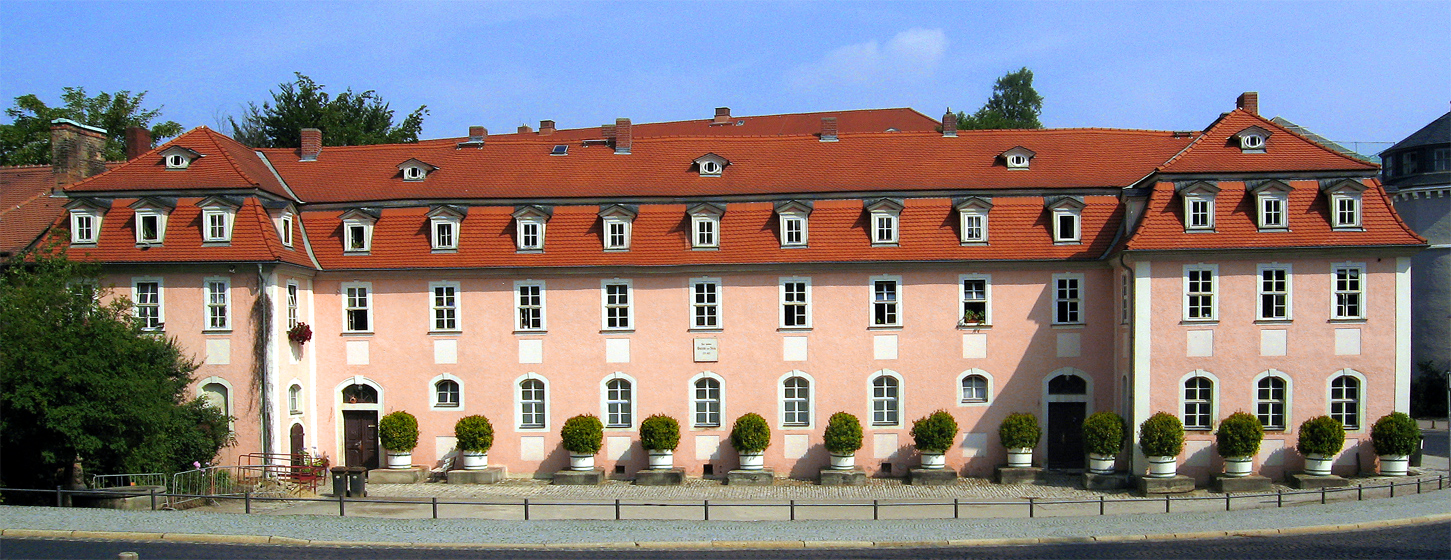 The house of Charlotte von Stein in Weimar